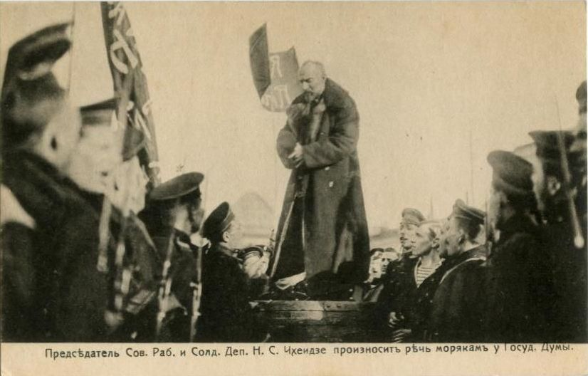 Carte Postale (Open Letter) with view of February Revolution events in Petrograd, Russian Empire